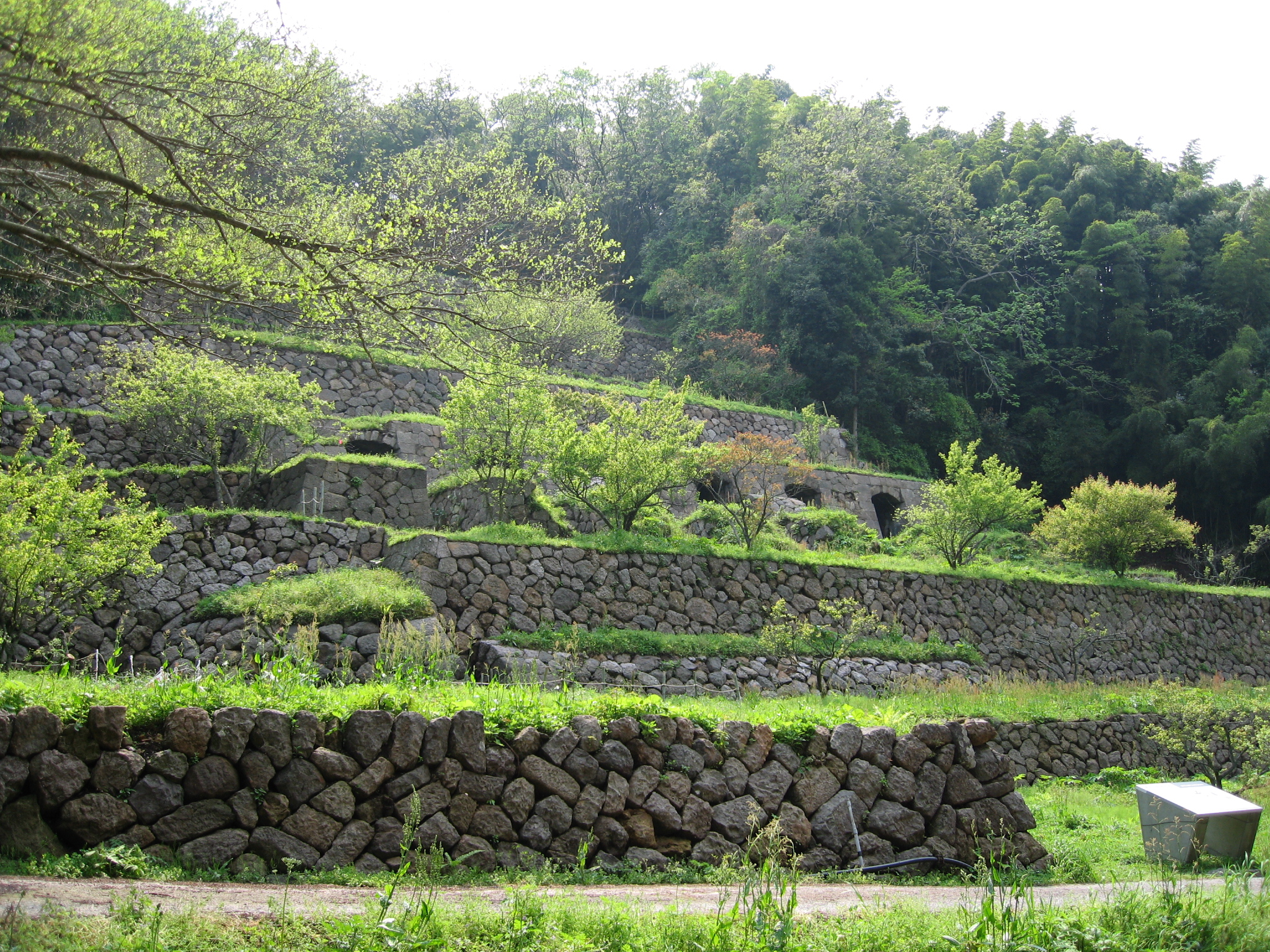 A refinery ruins of Iwami Ginzan silver mine was built in 1893.